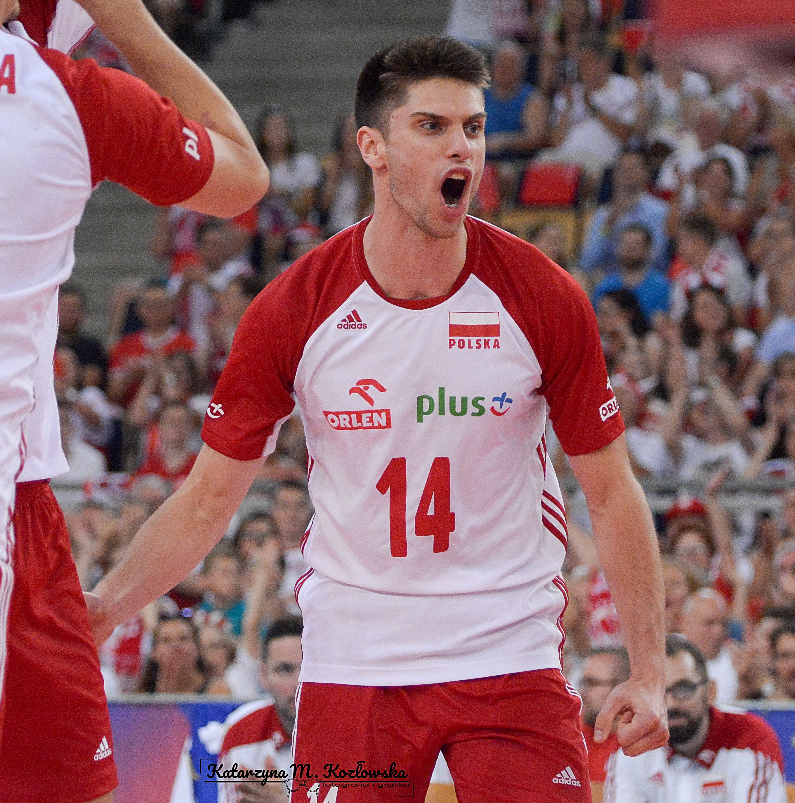 Volleyball Nations League: Poland - France